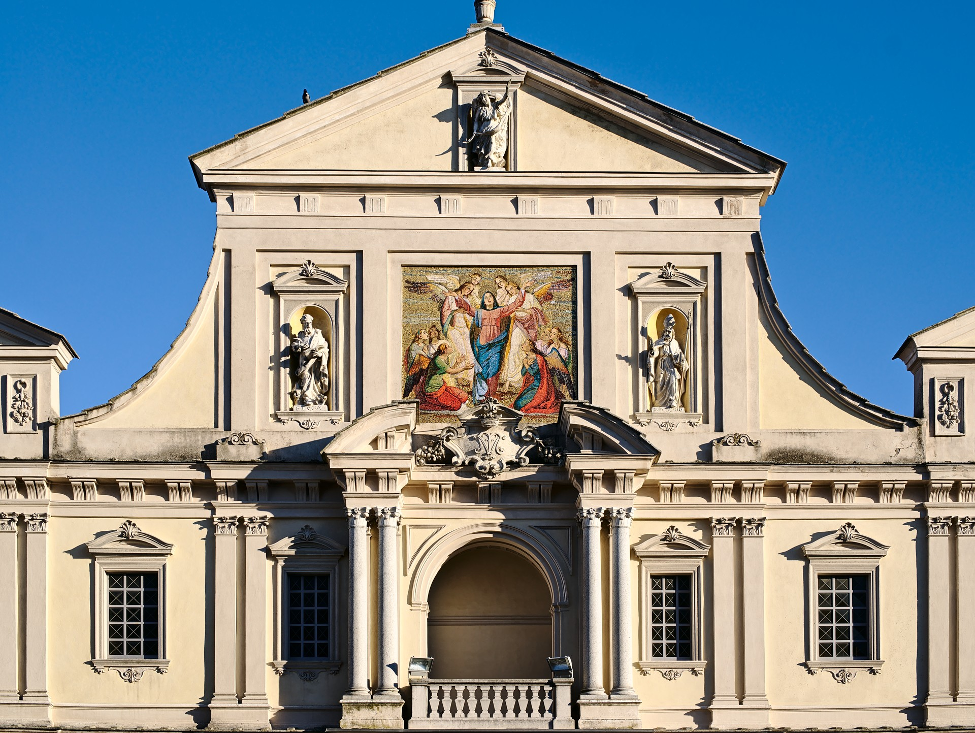 Sanctuary of Crea: the top of the facade with a central mosaic of Dalle Ceste.